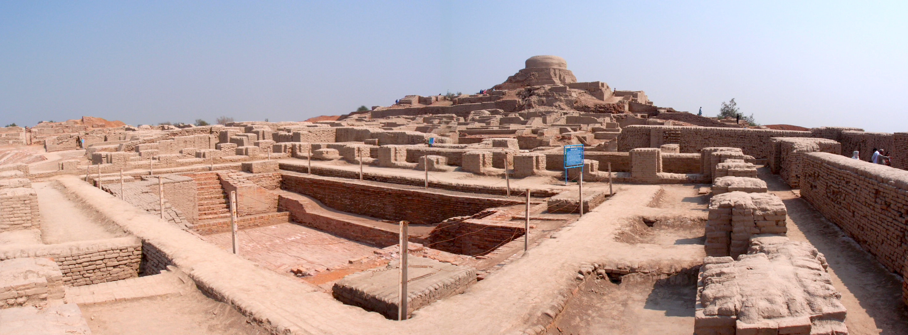 Panoramic view of the stupa mound and great bath